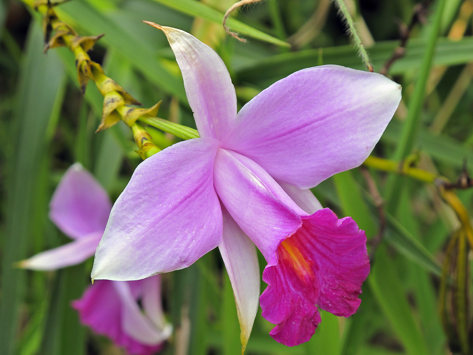 Wild Bamboo Orchid (Arundina graminifolia) growing at Fraser's Hill, Malaysia.